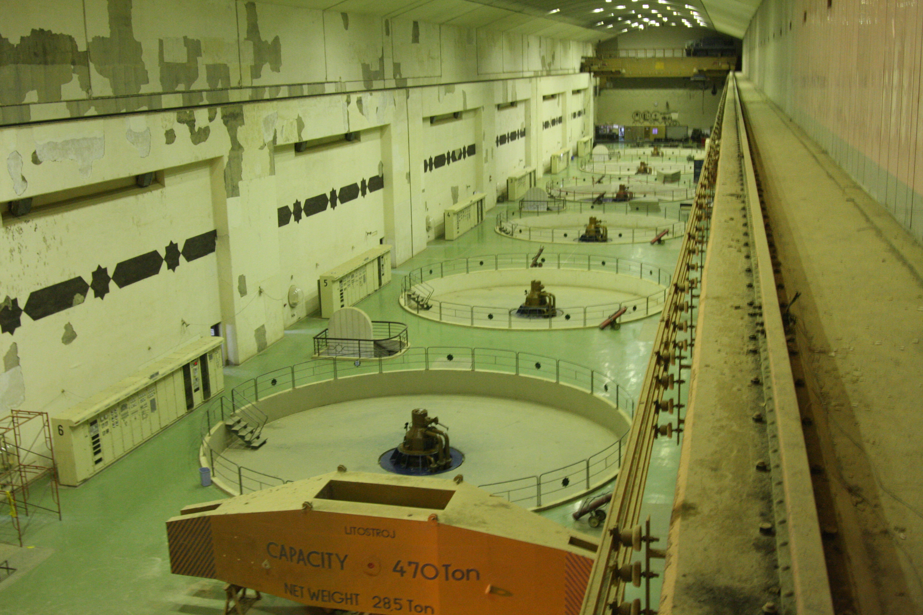 Overview of the turbine room inside the Haditha Dam, at Haditha, Iraq, Nov. 17, 2008.